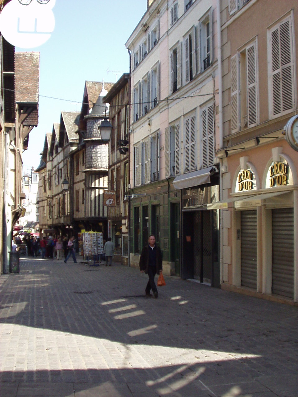 A street in Troyes, France.